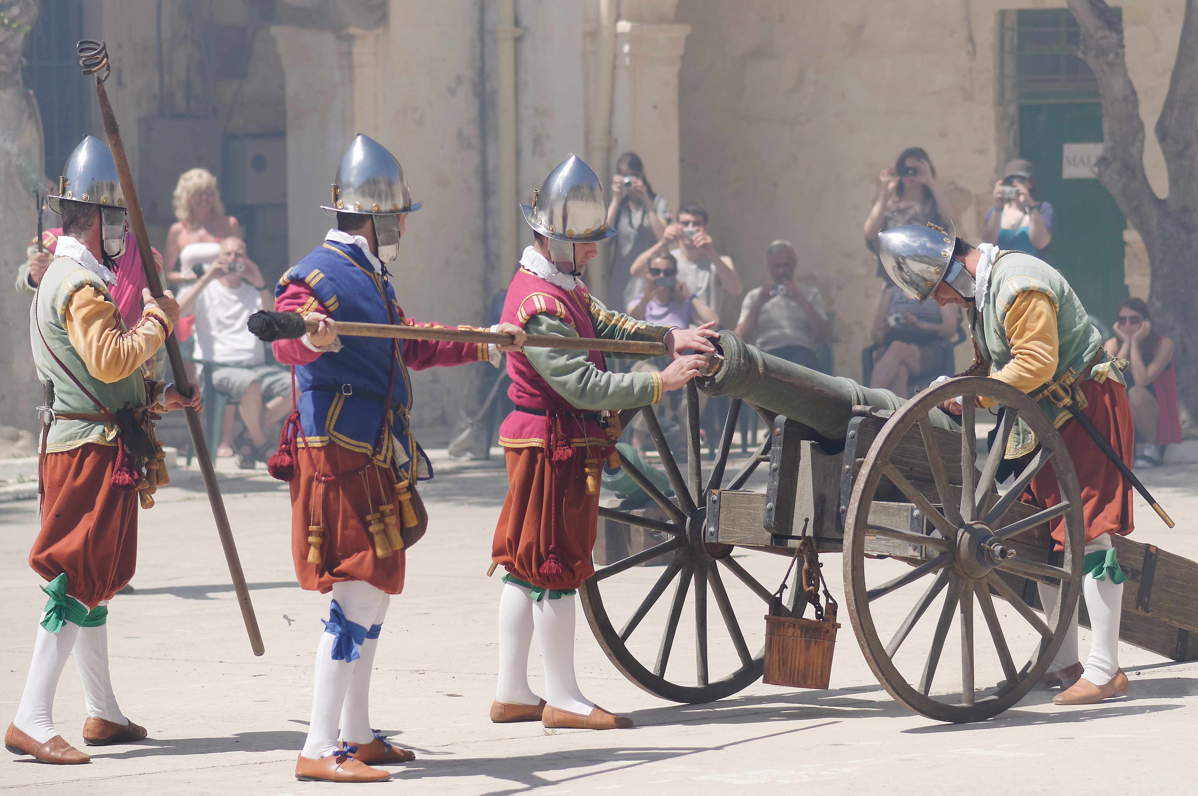 In Guardia parade at Fort St. Elmo, reenacting the inspection of the fort and its garrison by the Grand Bailiff of the Order of the Knights of St. John in charge of military affairs.